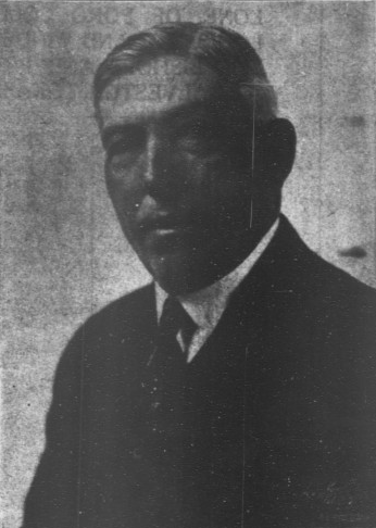 Patrick Nash, 1922.